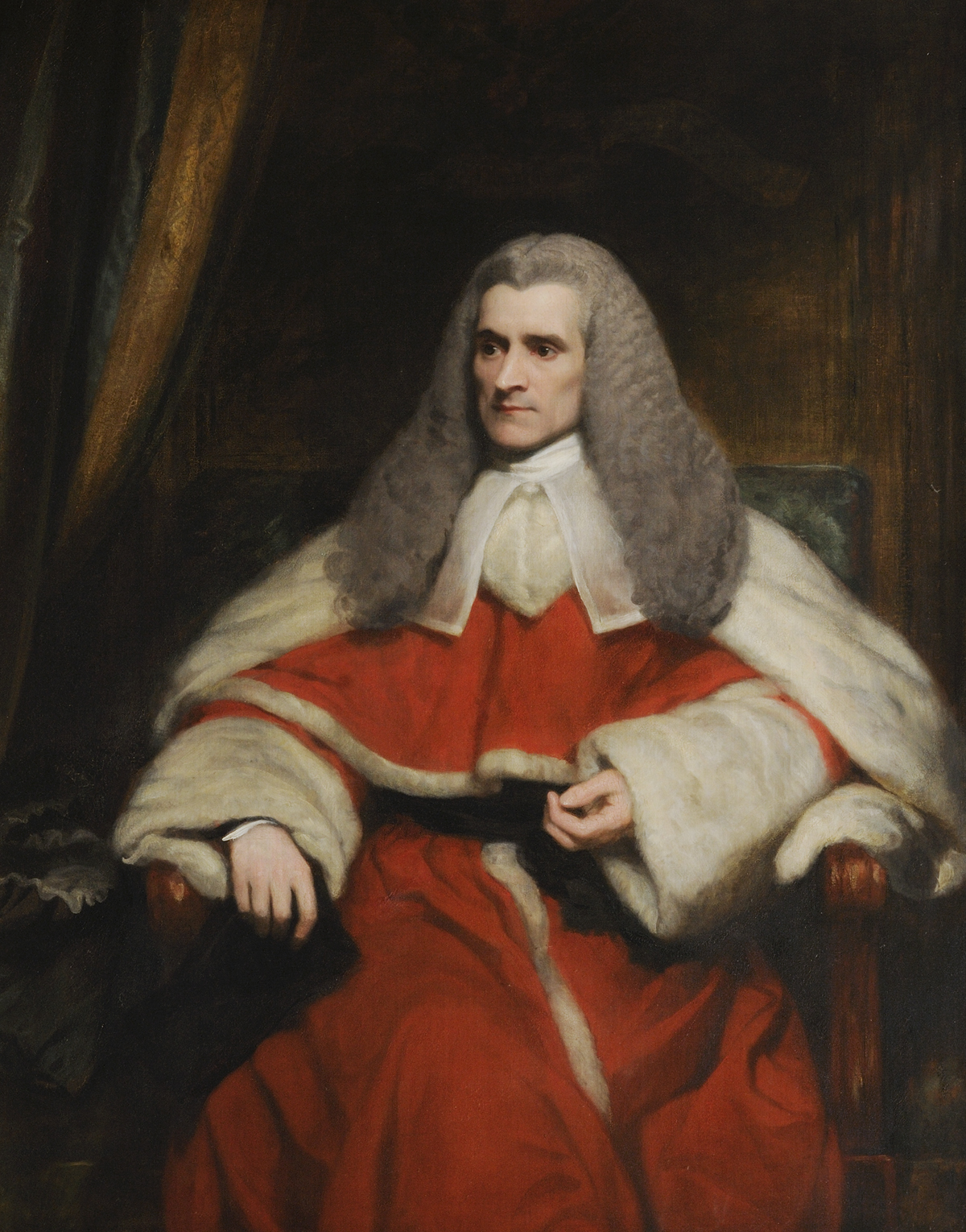 Portrait of Sir John Richardson (1771–1841), English judge.